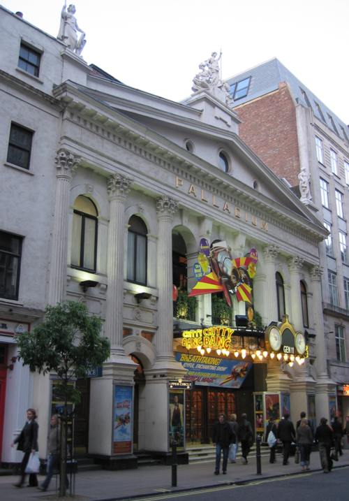 Chitty Chitty Bang Bang at the London Palladium. Photograph taken by Michael Reeve, 21 May 2004.